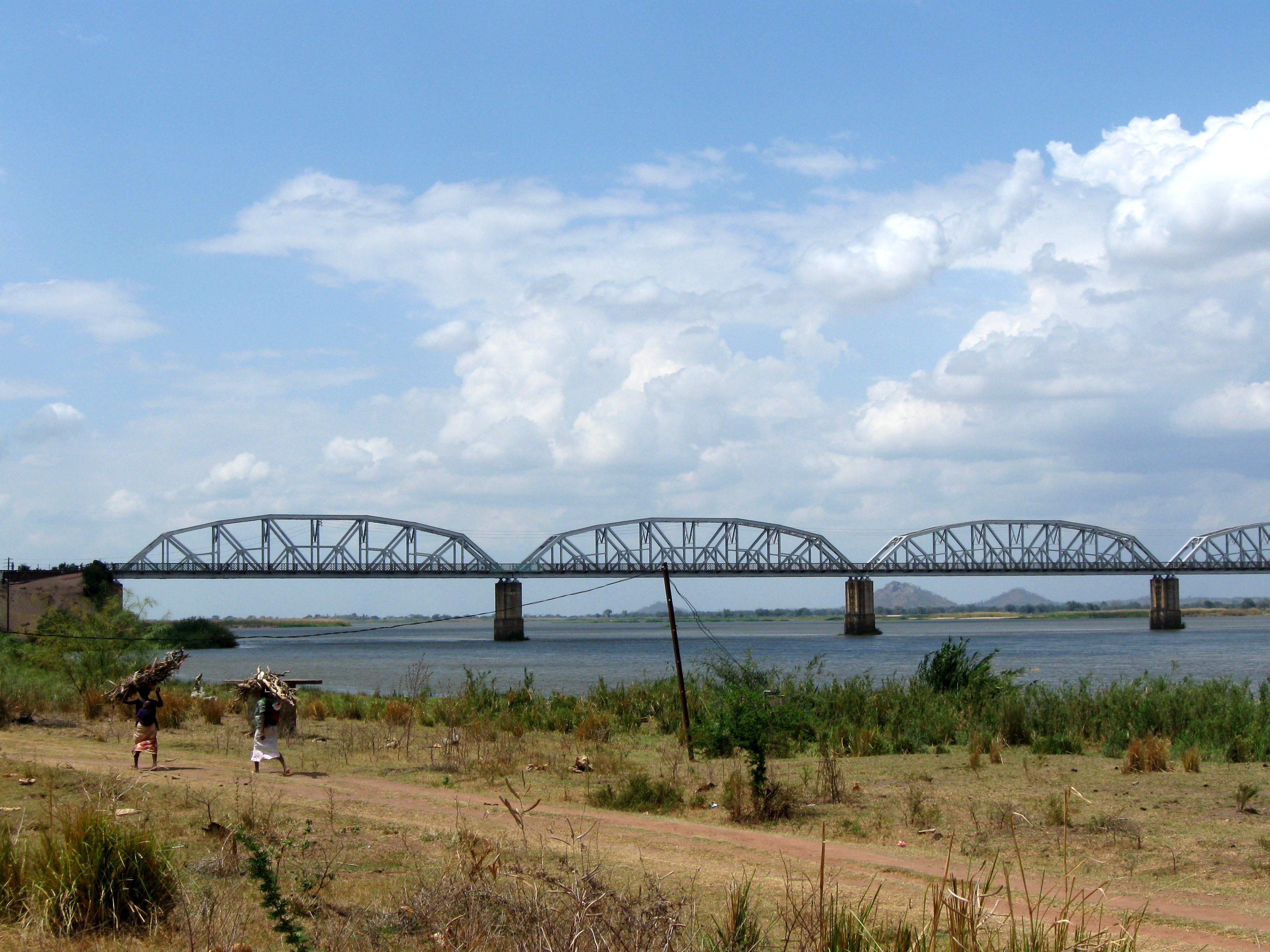 Dona Ana Railway bridge over the Zambezi river, between the villages Sena and Mutarara, Sofala/Tete provinces, Mozambique